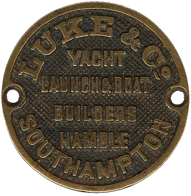 builders badge of Luke & Co yard